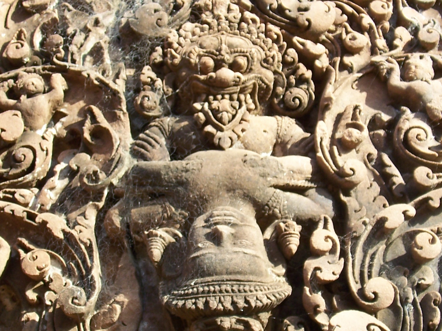 Narasimha claws Hiranyakasipu at Banteay Srei in Cambodia